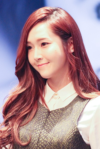 Jessica at a fansigning event, 1 December 2013